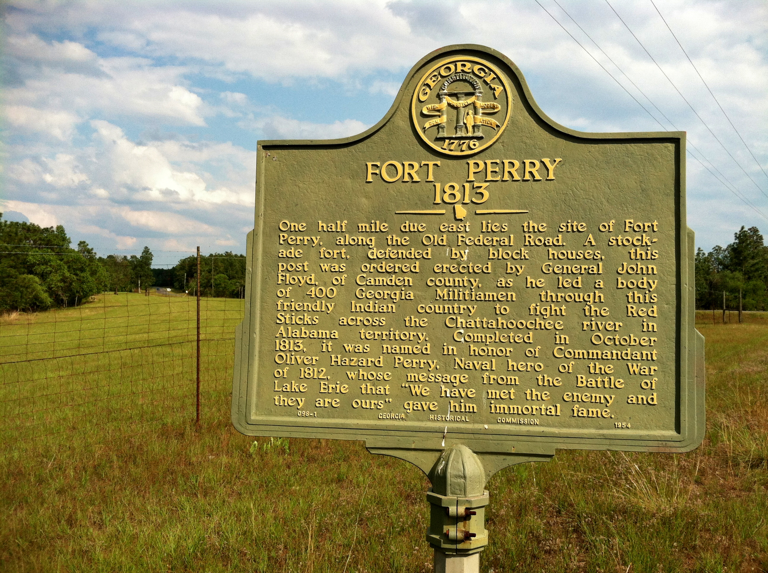 This is a photograph of the historic marker which commemorates the site of Fort Perry in Marion County, GA. The site of the fort itself is on private land.